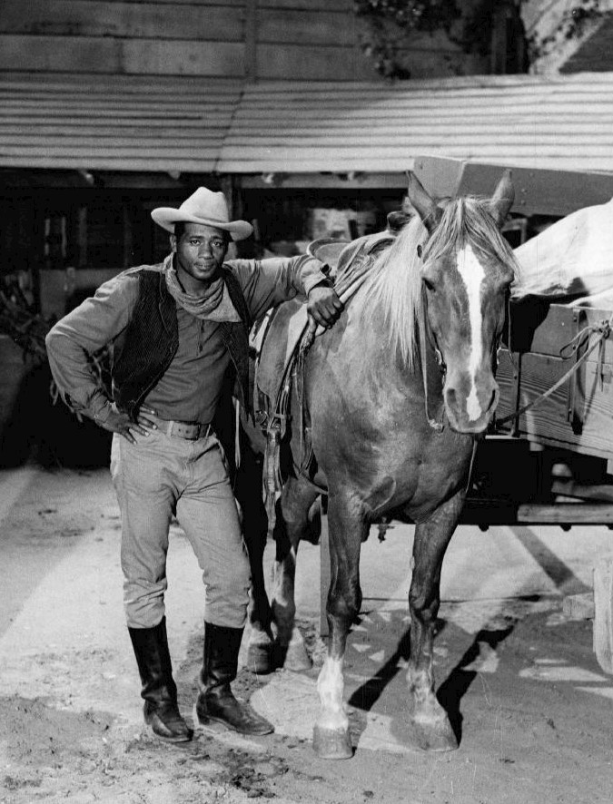 Former boxing champ Floyd Patterson made his acting debut in this episode of the television program The Wild Wild West. Patterson played a landowner who was in danger of losing his property.